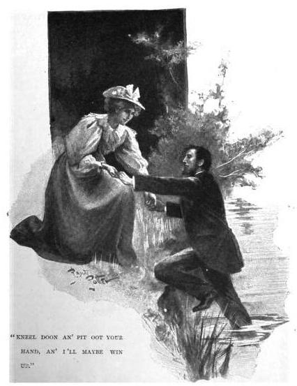 Illustration from "When the Gorse is in Flower" (1897) by Annie E. Holdsworth